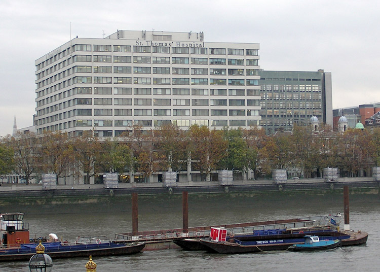 Saint Thomas’ Hospital, London.